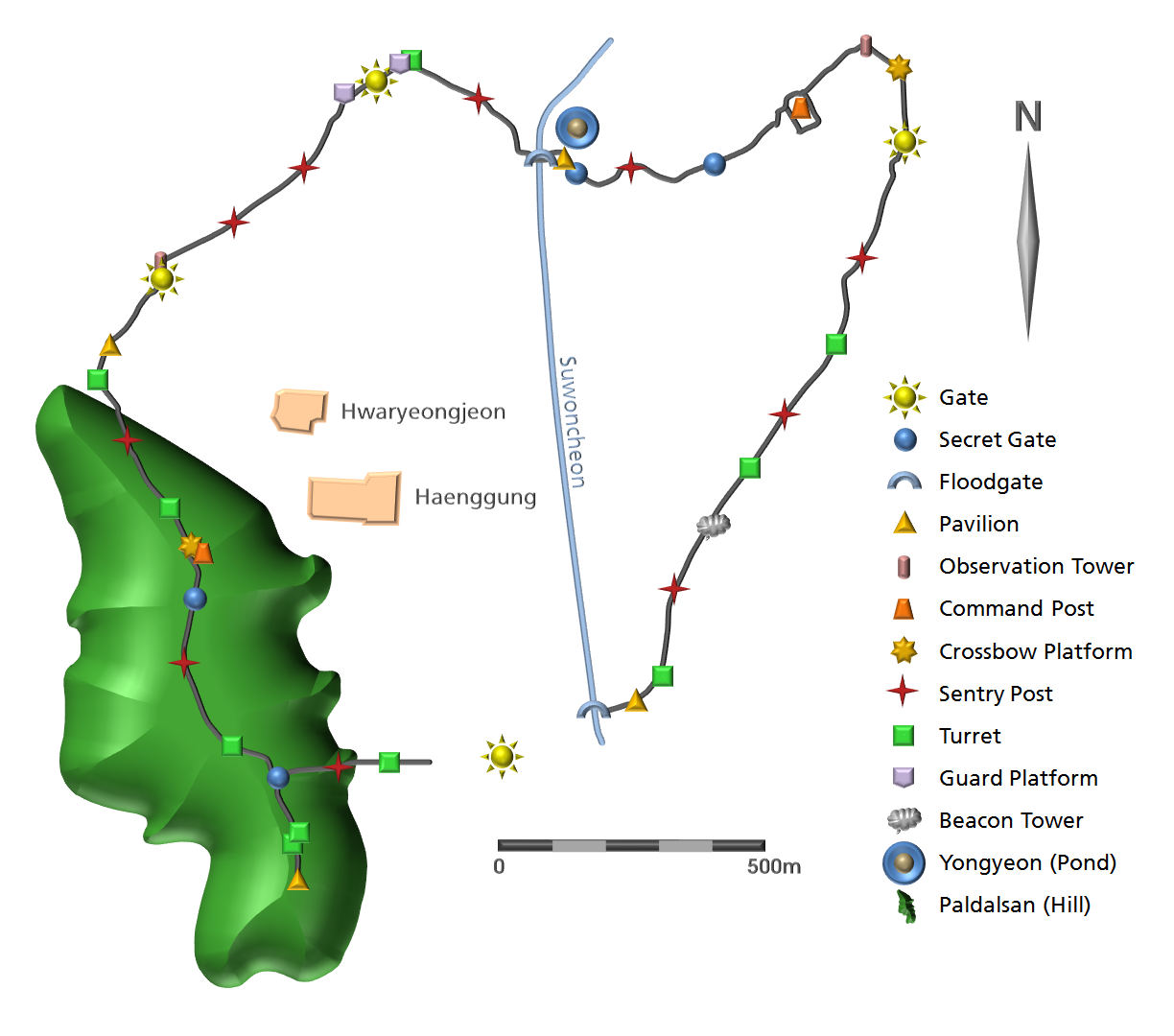 Map of Hwaseong Fortress, Suwon, South Korea Self-made